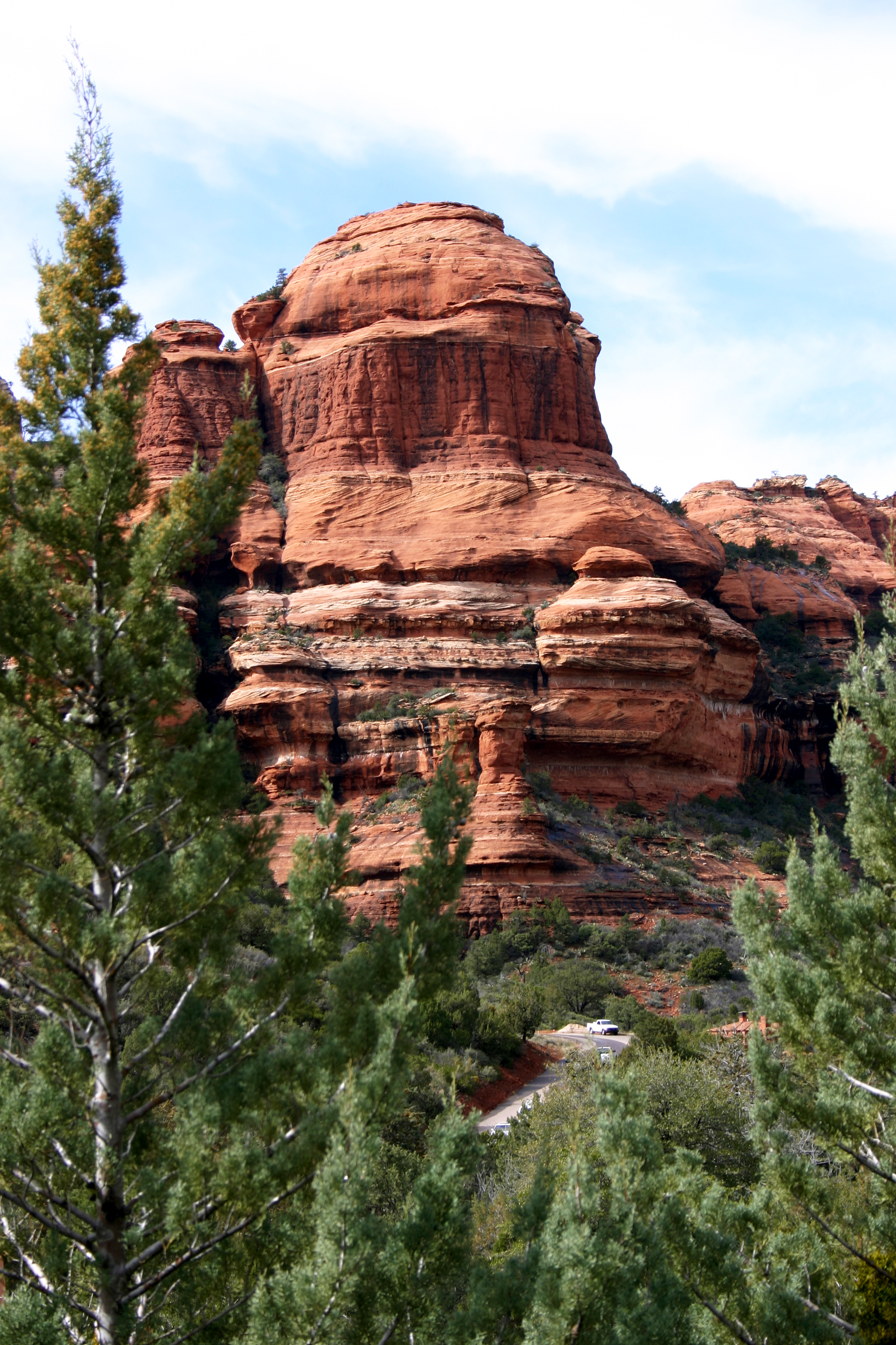 Canyon wall, Oak Creek Canyon, Arizona Uploaded on April 20, 2005 by kevinzim Note the complexity of the bedding, probably members of the Schnebly Hill Formation, (Bell Rock Member, Apache Limestone Member, etc). Below the darker middle section, is a cross-bedded dune member (fossil, lee slopes, on dunes), laid on a flat surface, and planed flat on top. The Pedregosa Sea advanced northwest to the Sedona region, and left the Schnebly Hill Formation; the Apache Limestone Member is thin at Sedona, but 100 ft thick west in the White Mountains region, both areas the north extensions of the Pedregosa Sea.